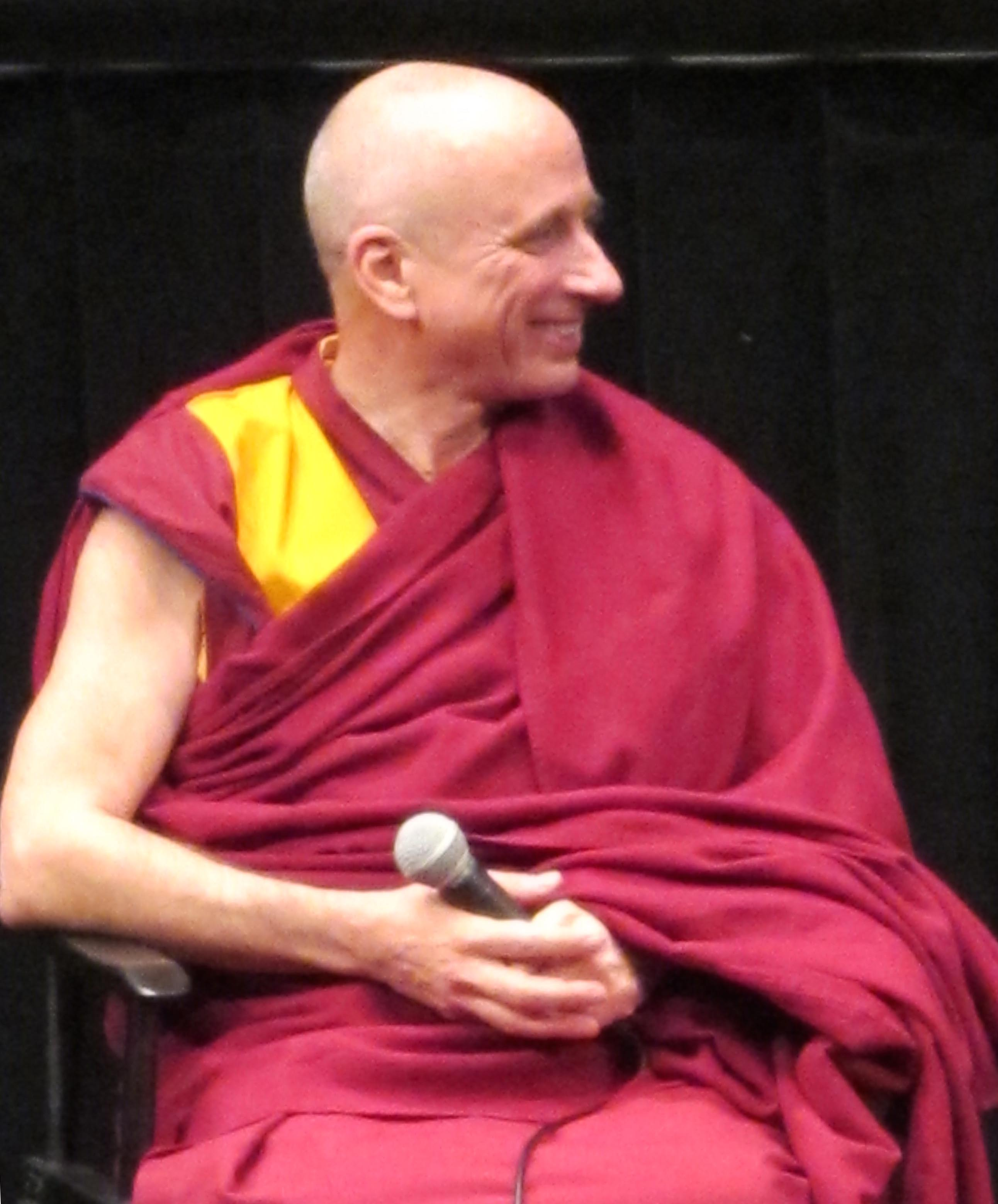 Geshe Nicholas Vreeland on stage at Lincoln Center for the New York premiere of Monk with a Camera, Nov 21, 2014